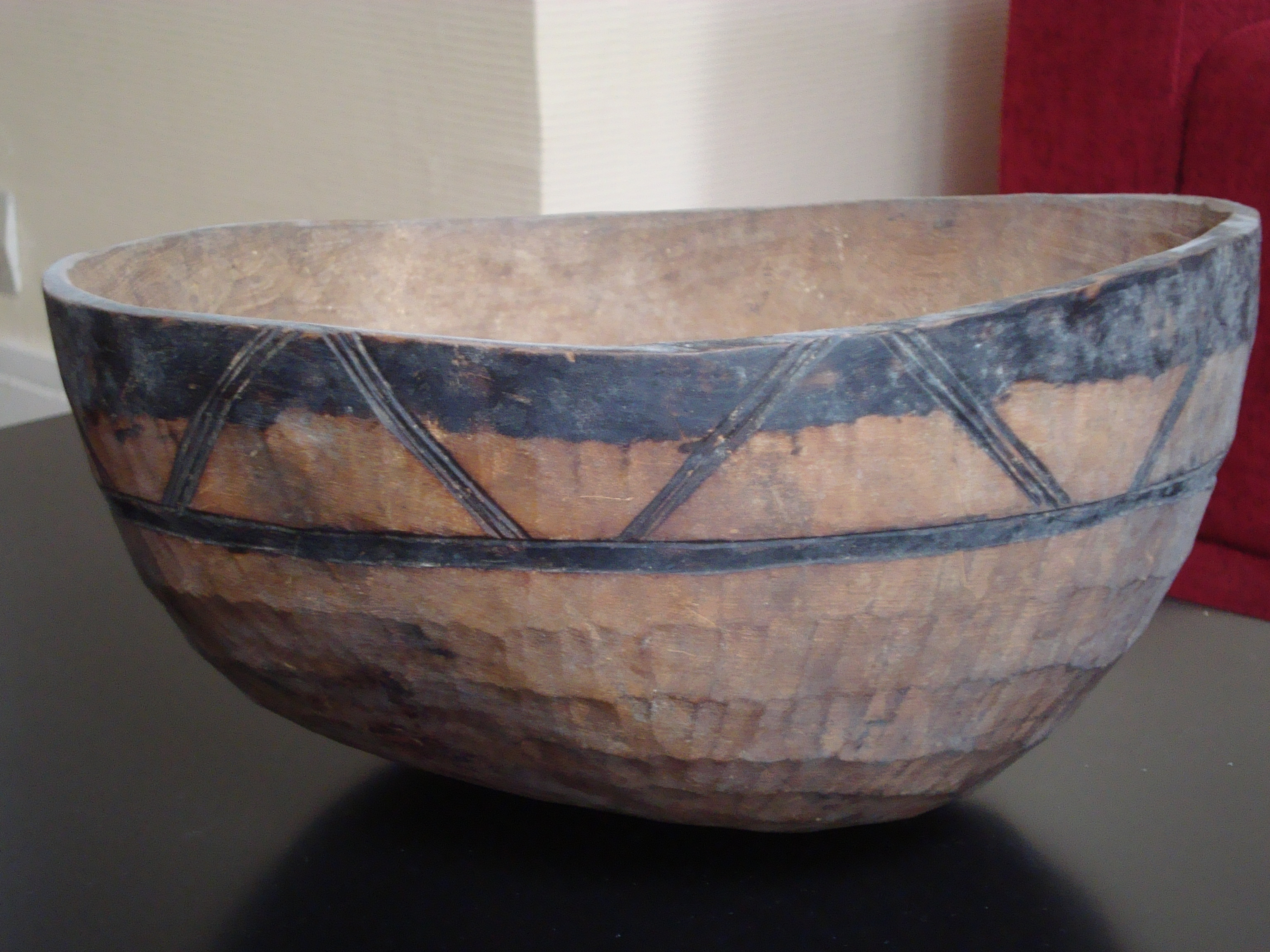 A bandiagara vase in karite wood from Mali